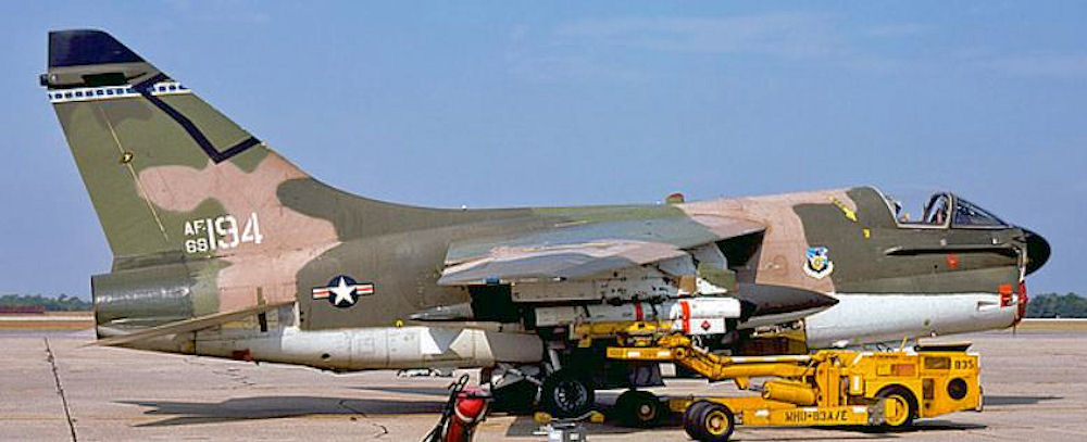 3246th Test Wing A-7D Corsair II 68-6194 1969: Aircraft delivered to 4525th Fighter Weapons Wing, Nellis AFB, NV (C/N 024) Transferred to 355th Tactical Fighter Wing/333d TFS, Davis-Monthan AFB, AZ, 1971 Transferred to 3246th Test Wing, Eglin AFB, FL, 1979 Transferred to 412th Test Wing/445th Flight Test Squadron, Edwards AFB, CA, 1989 Transferred to AMARC as AE0018 Oct 4, 1990 Transferred to Holloman Range, New Mexico as gunnery target, May 1996